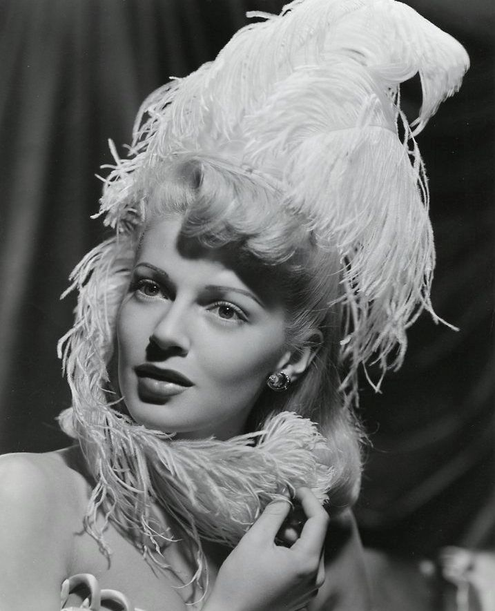 Lana Turner in Marriage is a Private Affair publicity portrait by C. S. Bull